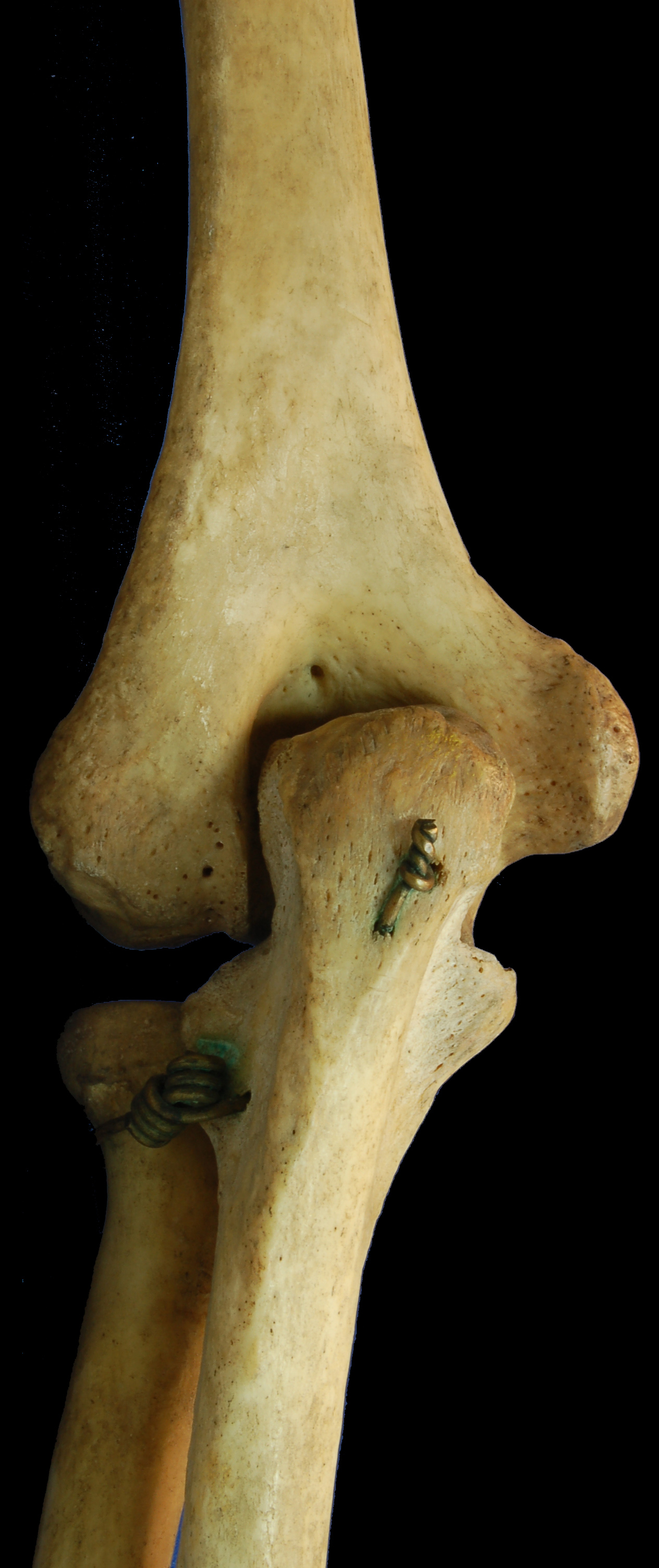 Photograph of Posterior aspect of left human articulation of humerus, radius, and ulna. Keywords: Human bones, bones, elbow, radius, ulna, humerus.